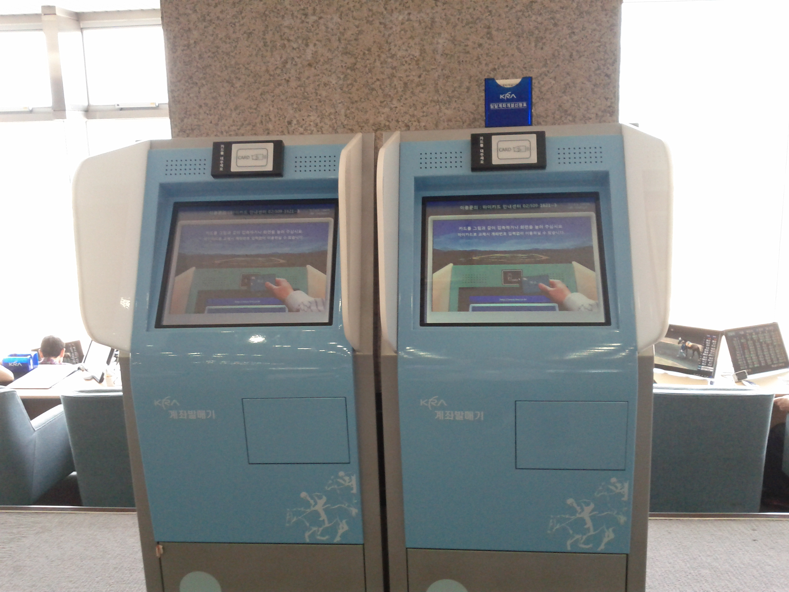 Korea Racing Authority's account based betting system(마이카드)